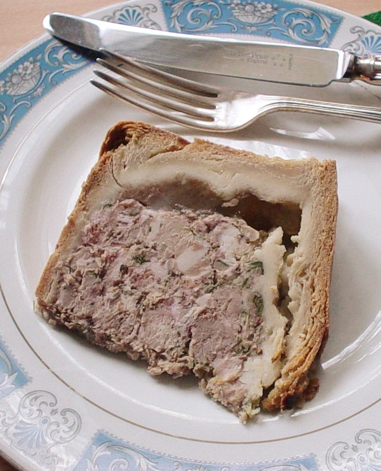 A Hugh Fearnley-Whittingstall pork pie.